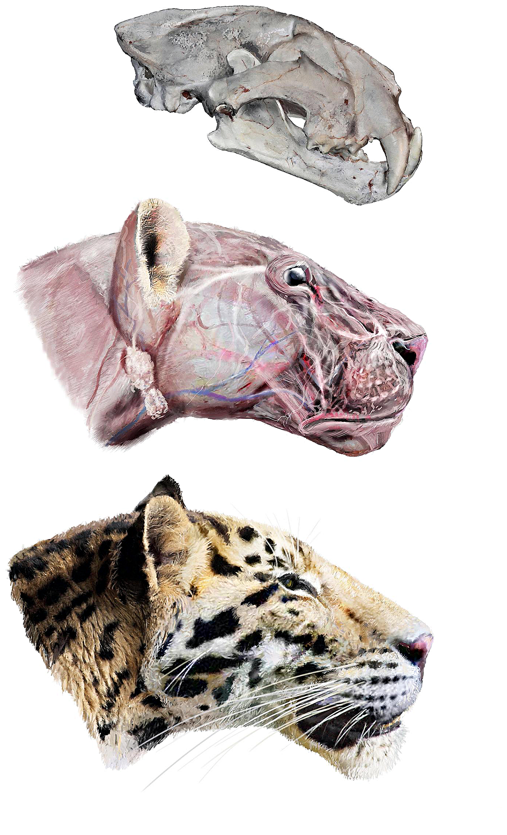 Artist's reconstruction of the Longdan tiger (Panthera zdanskyi sp. nov.), illustrated by Velizar Simeonovski (Field Museum of Natural History, Chicago). Myology reconstruction was done according to current knowledge of felid soft part anatomy, but coat morphology is tentative.